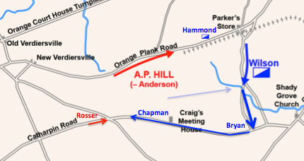 Map of the May 5 positions of BG James H. Wilson’s 3rd Cavalry Division in the Battle of the Battle of the Wilderness of the American Civil War. John Hammond’s 5th New York was detached from the 1st Brigade on the Orange Plank Road. Col. Timothy M. Bryan’s 1st Brigade had the rear on the advance and retreat. Col. George H. Chapman’s 2nd Brigade led in the advance and retreat. Wilson originally pushed Rosser back, but then had to retreat using east using a wagon track through the woods.